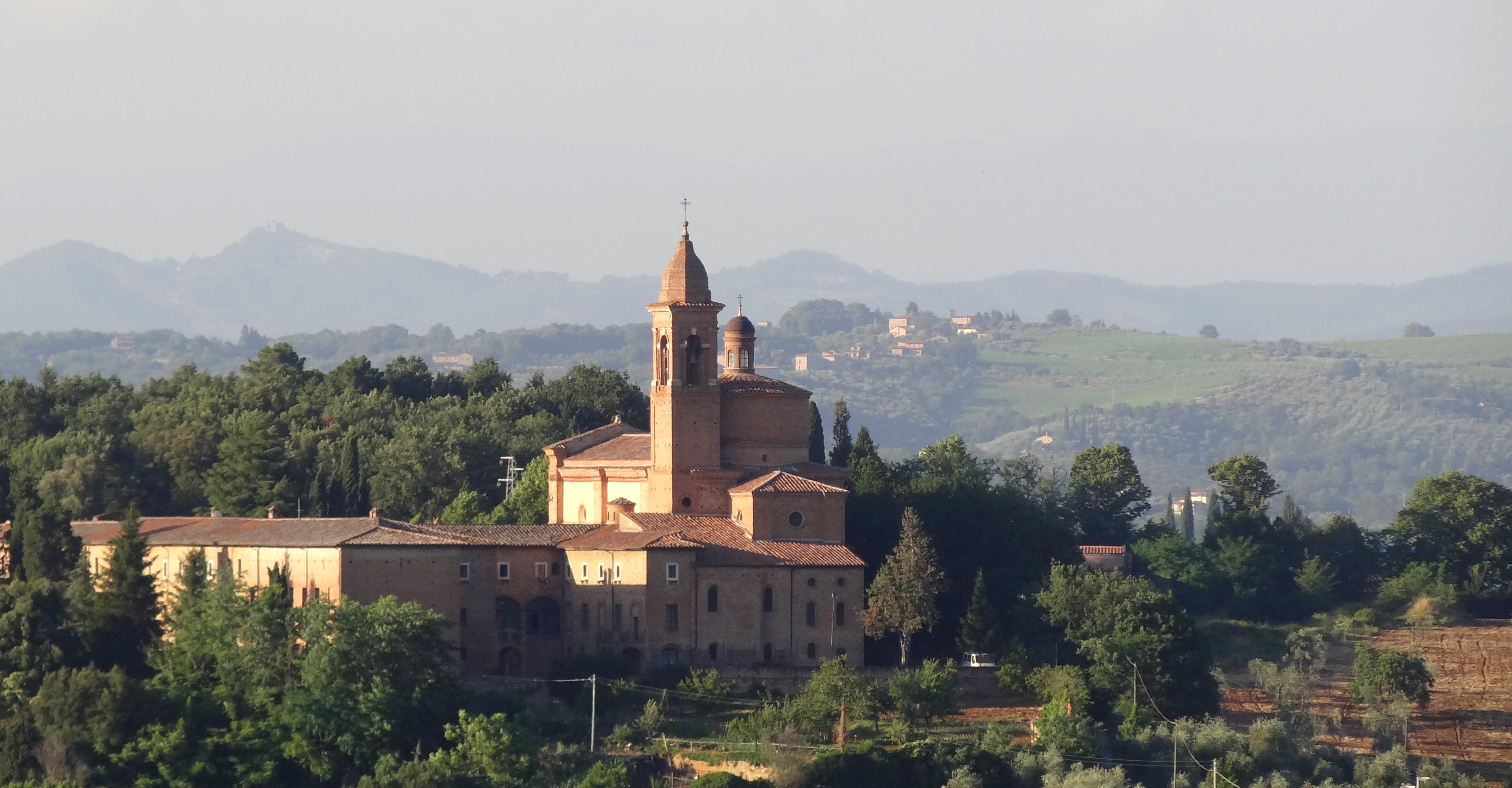 The Basilica dell'Osservanza, a church on the outskirts of Siena, Italy. Built around 1490.